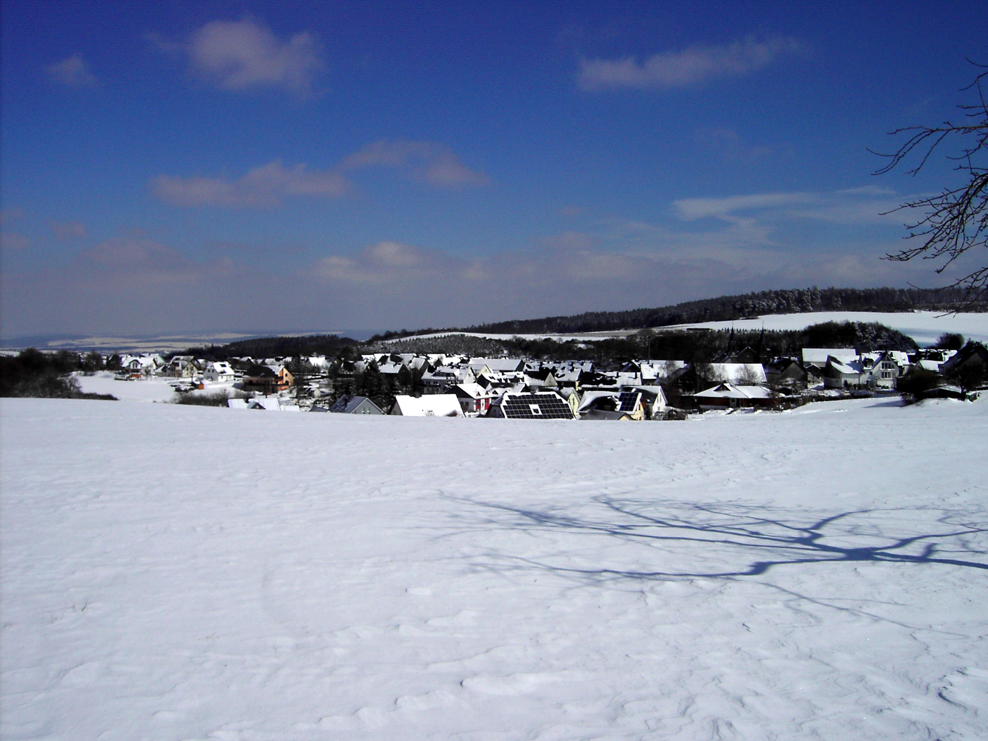 Wiebelsheim, a small village in the Hunsrück region at the A61 (motorway 61) and part of the association of municipalities St. Goar–Oberwesel, seen from south-west.